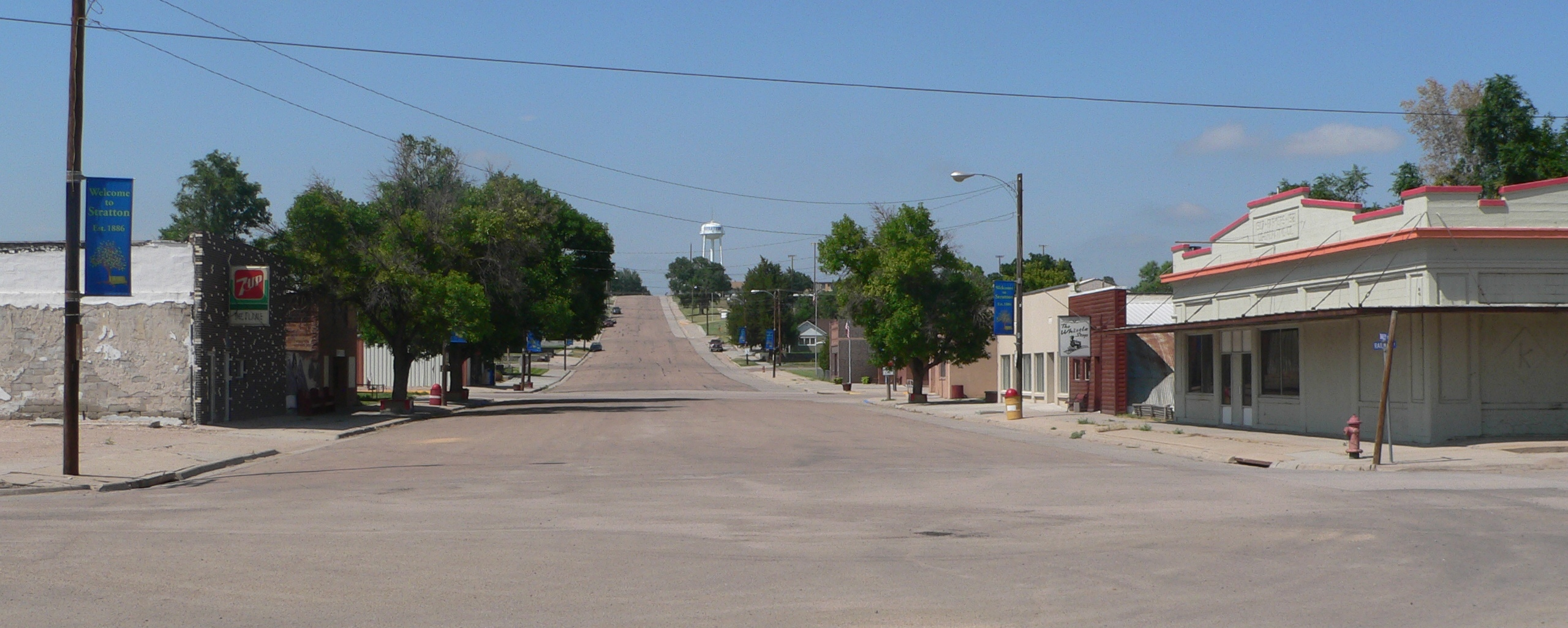 Downtown Stratton, Nebraska: Bailey Street, looking north from about Railroad.